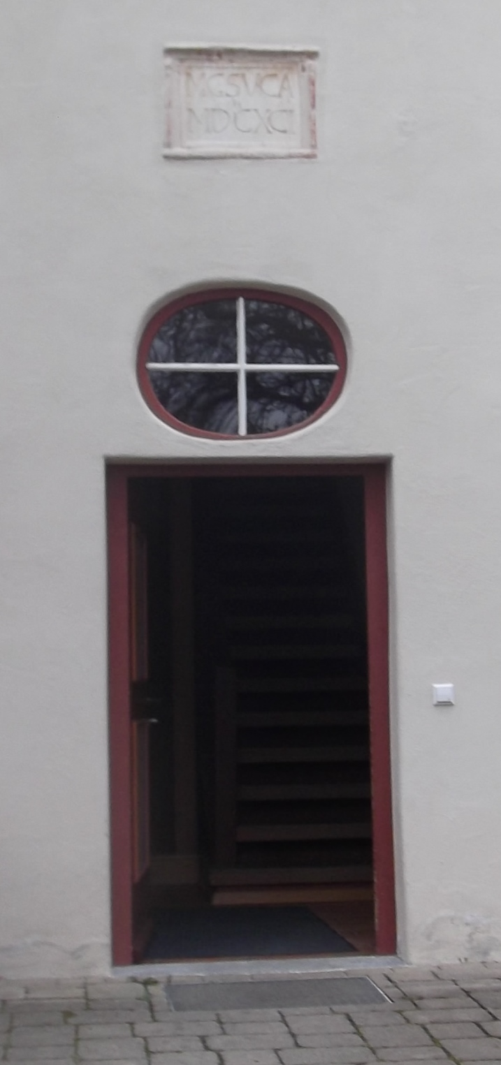 Inscription "MGSVCA MDCXCI" (= "Maria Gertrud Schenk von Castell 1691") above the entrance of the former building of the office clerk and forestry administrator of the monastery of Urspring